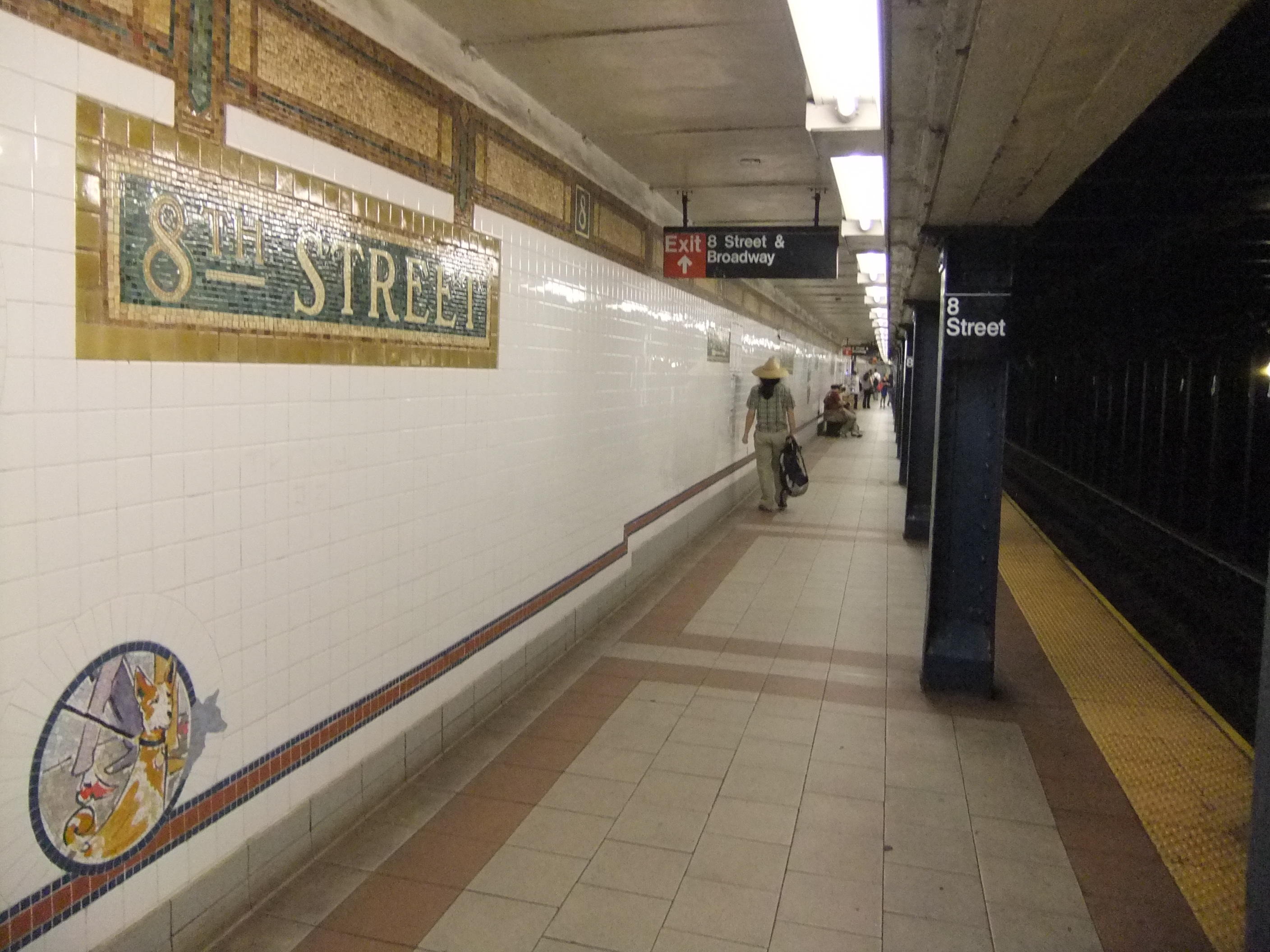 Brooklyn bound platform at 8th Street-NYU.